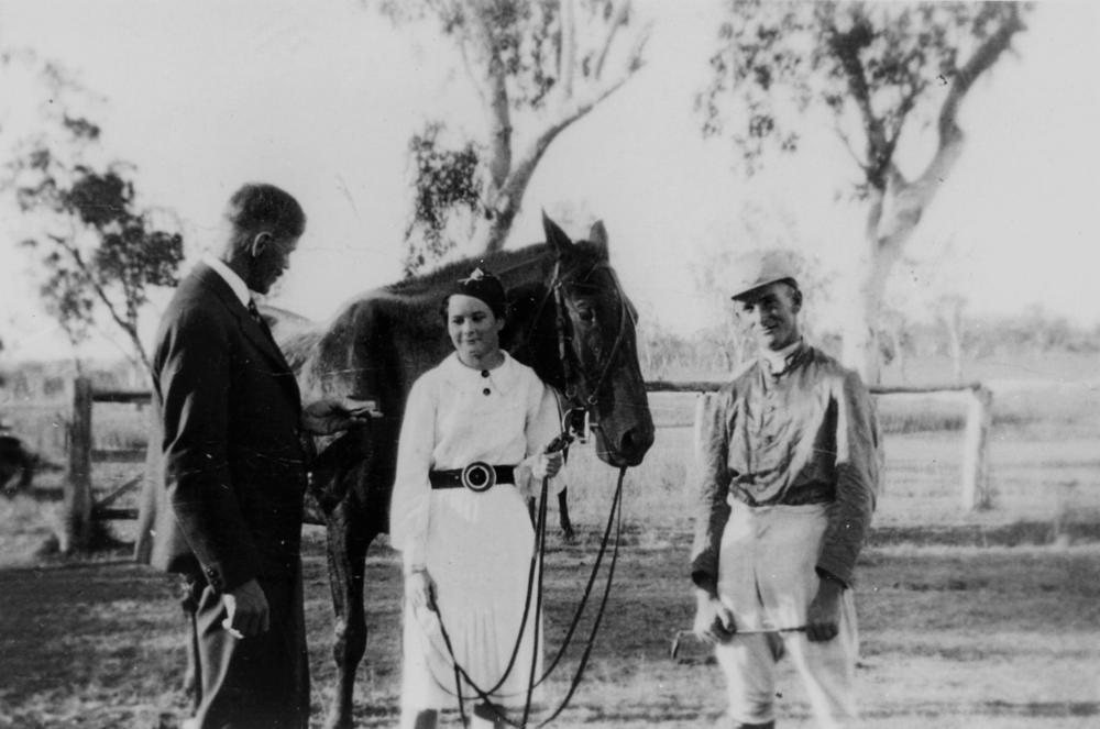 Winning horse, Vora, at the Nebo races, ca. 1932. Ted Walsh M. L. A. is presenting the winner's bracelet to Grace McLean, after her horse Vora won at Nebo. The winning jockey is standing with his whip in hand, listening to the presentation. (Description supplied with photograph).